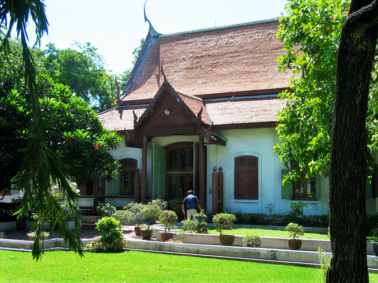 Royal Elephant Stable where the King of Siam used to keep his White Elephants (today: The Royal Elephant National Museum, Bangkok)